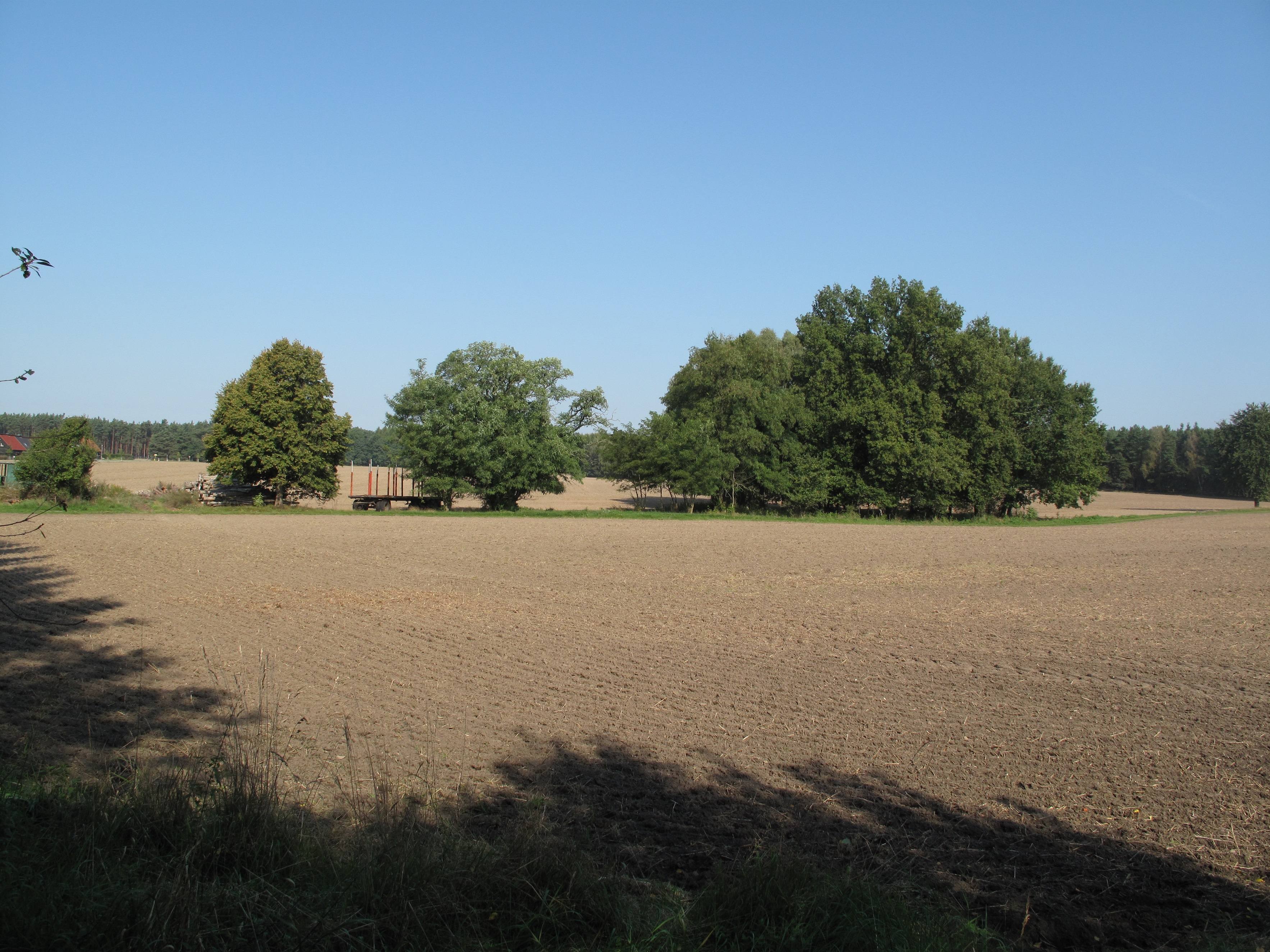 Agricultural landscape in Schwenow. Schwenow is a village in the District Oder-Spree, Brandenburg, Germany. Schwenow belongs to Limsdorf, a part (german: Ortsteil) of the town Storkow. It is situated in the Dahme-Heideseen Nature Park and in the Naturschutzgebiet (protected area)/Natura 2000-area Naturschutzgebiet Schwenower Forst.